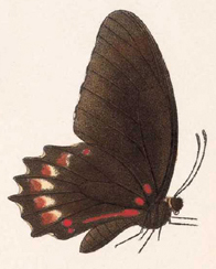 Papilio belesis = Mimoides ilus branchus (Doubleday, 1846) (underwing)